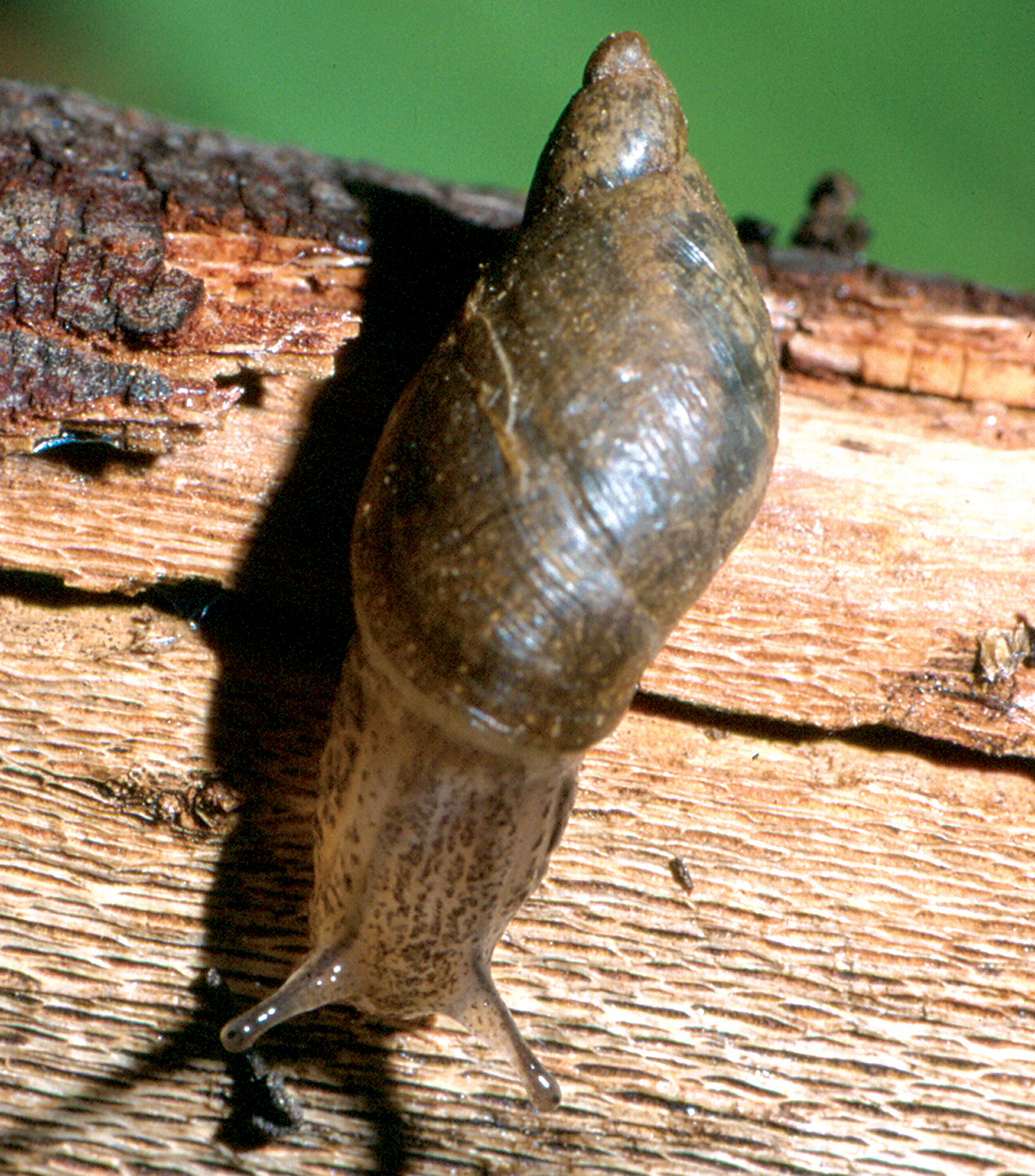 The Kanab ambersnail Oxyloma haydeni kanabensis photographed at Vaseys Paradise in Grand Canyon National Park. Source: Southwest Biological Science Center Author: Roy Averill-Murray